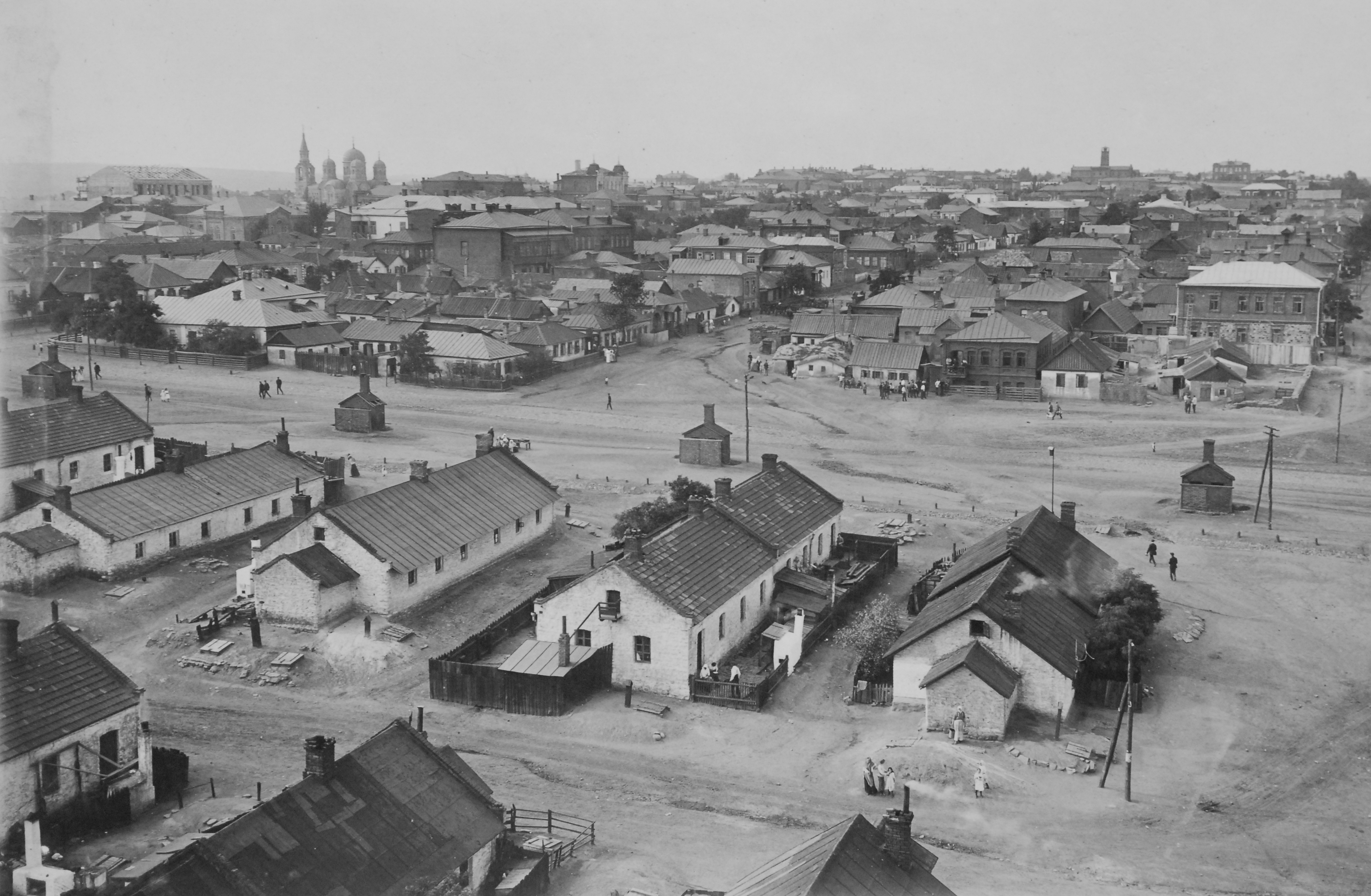 Photograph showing general view of Hughesovka. Russian workers' housing can be seen in the foreground, and the church is in the background on the left.